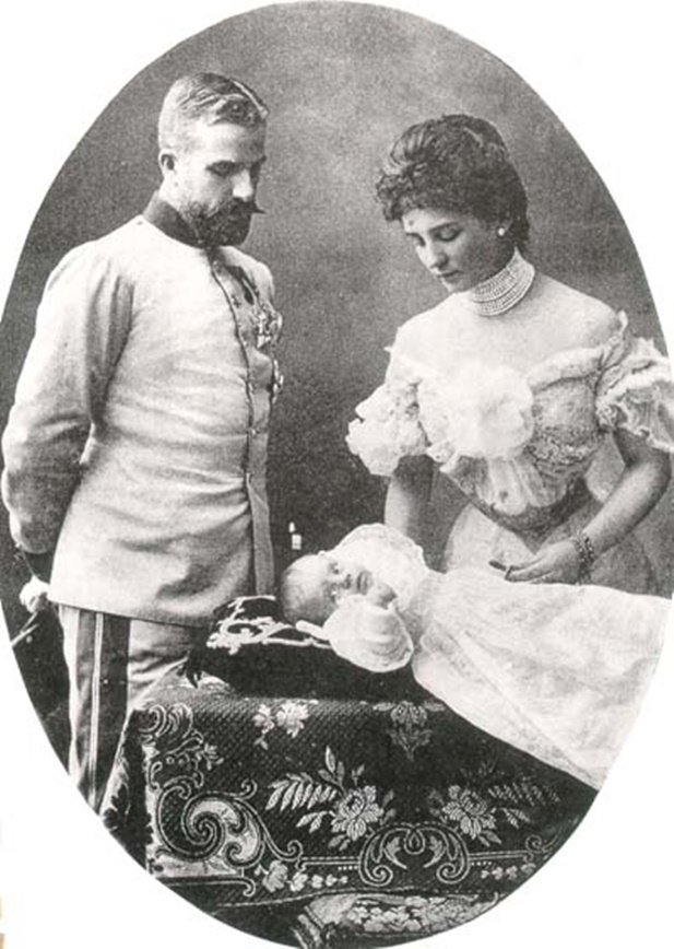 Mathilde, Princess of Bavaria (1877-1906) with her husband Ludwig of Saxe (1870-1942) and their son Antonius (1901-1970)